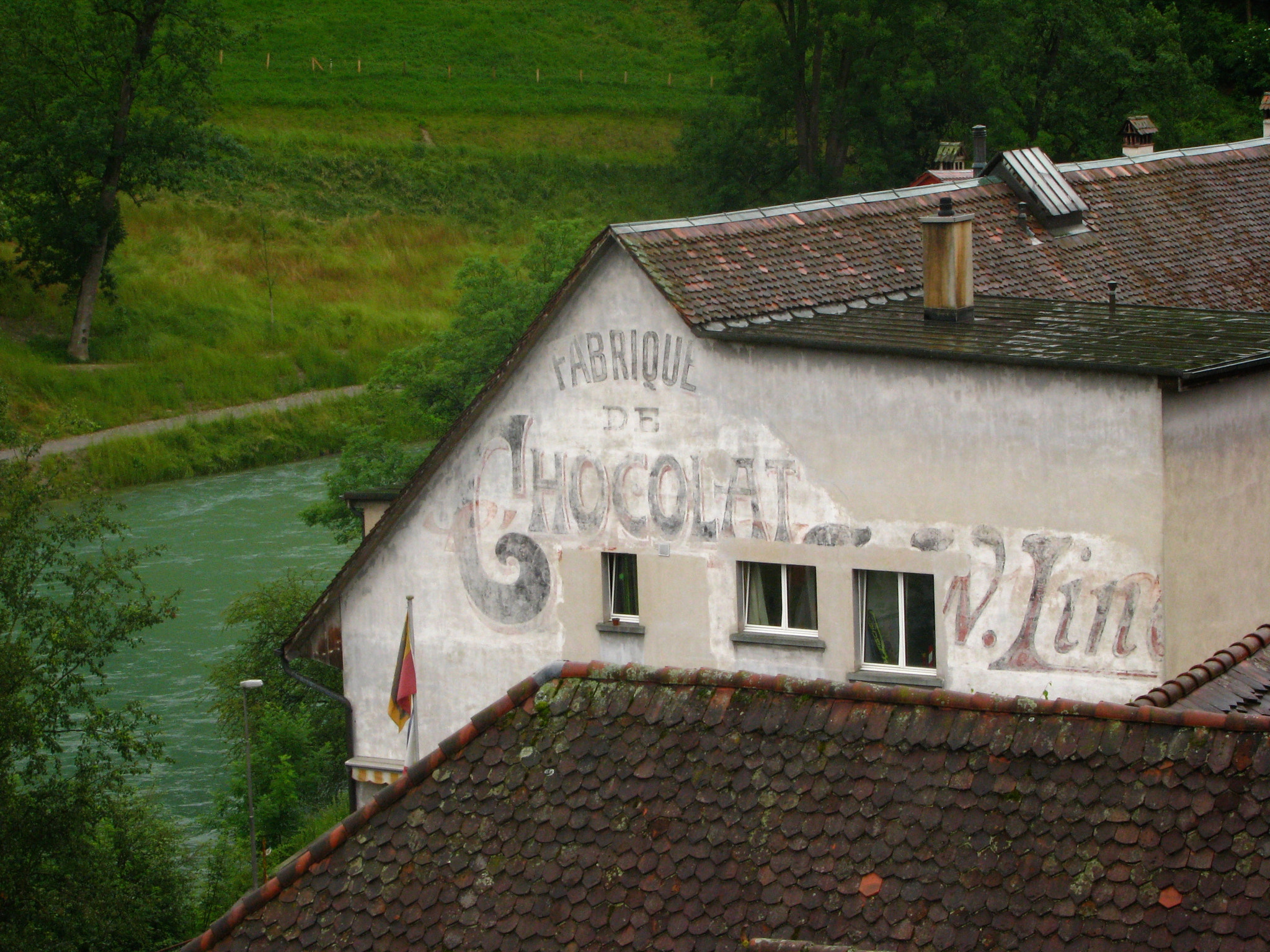 500px provided description: Chocolat [#factory ,#typography ,#lettering] In der Berner Matte erfand Rudolf Sprüngli die erste "richtige" Schokolade